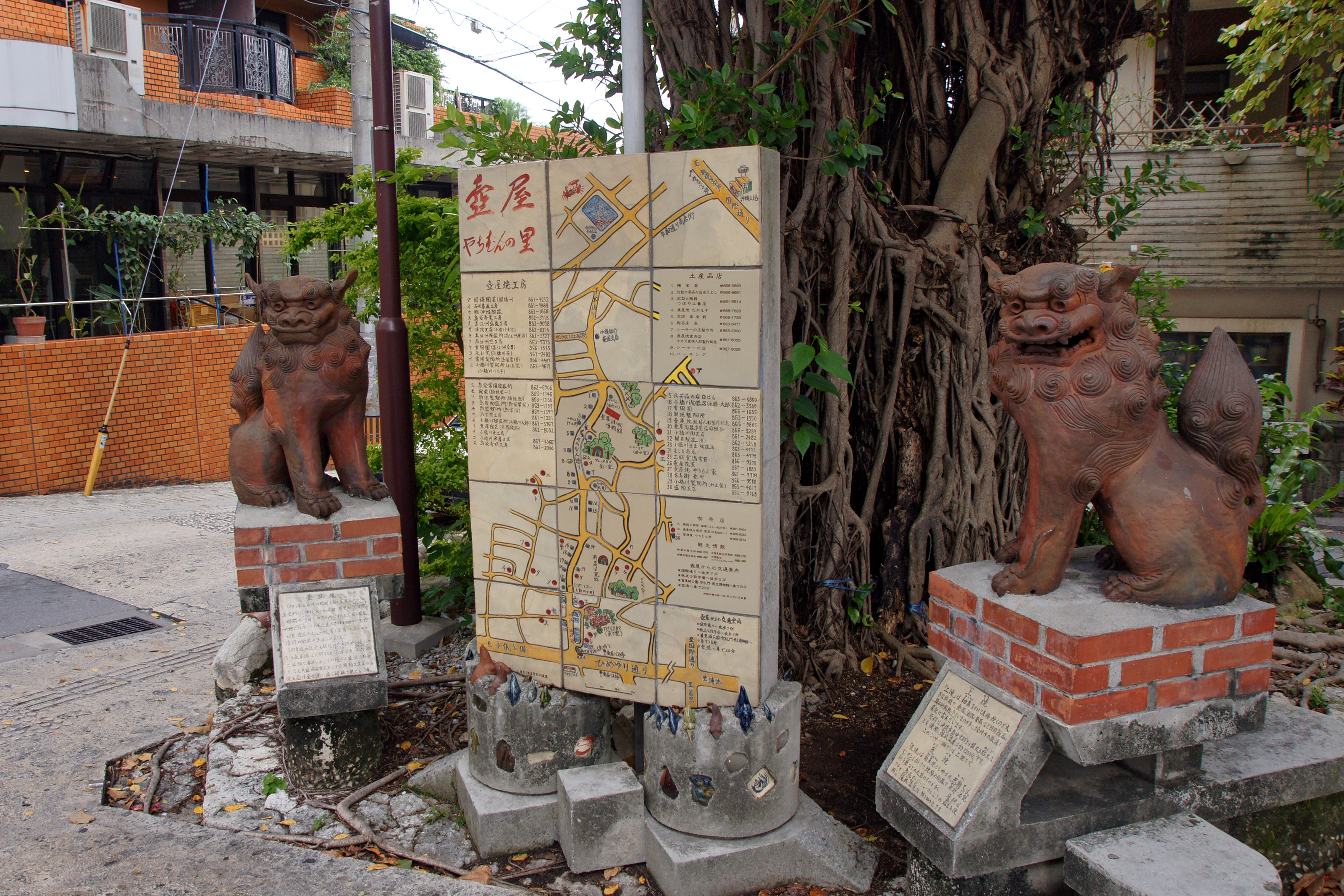 Tsuboya, Naha, Okinawa prefecture, Japan